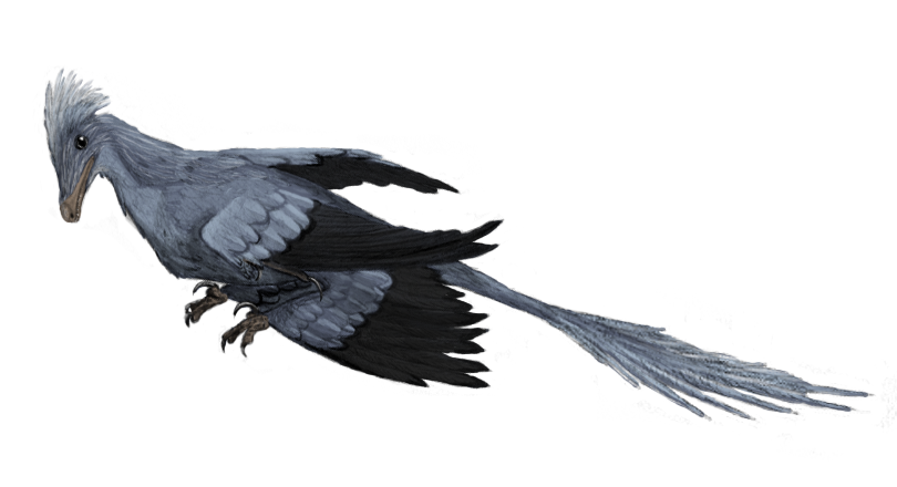 Illustration of the small theropod dinosaur Microraptor zhaoianus by Matt Martyniuk. Graphite and digital. Based upon skeletal reconstructions by Scott Hartman and figures provided in: Xu, X., Zhou, Z., Wang, X., Kuang, X., Zhang, F. and Du, X. (2003). "Four-winged dinosaurs from China." Nature, 421(6921): 335-340, 23 Jan 2003.